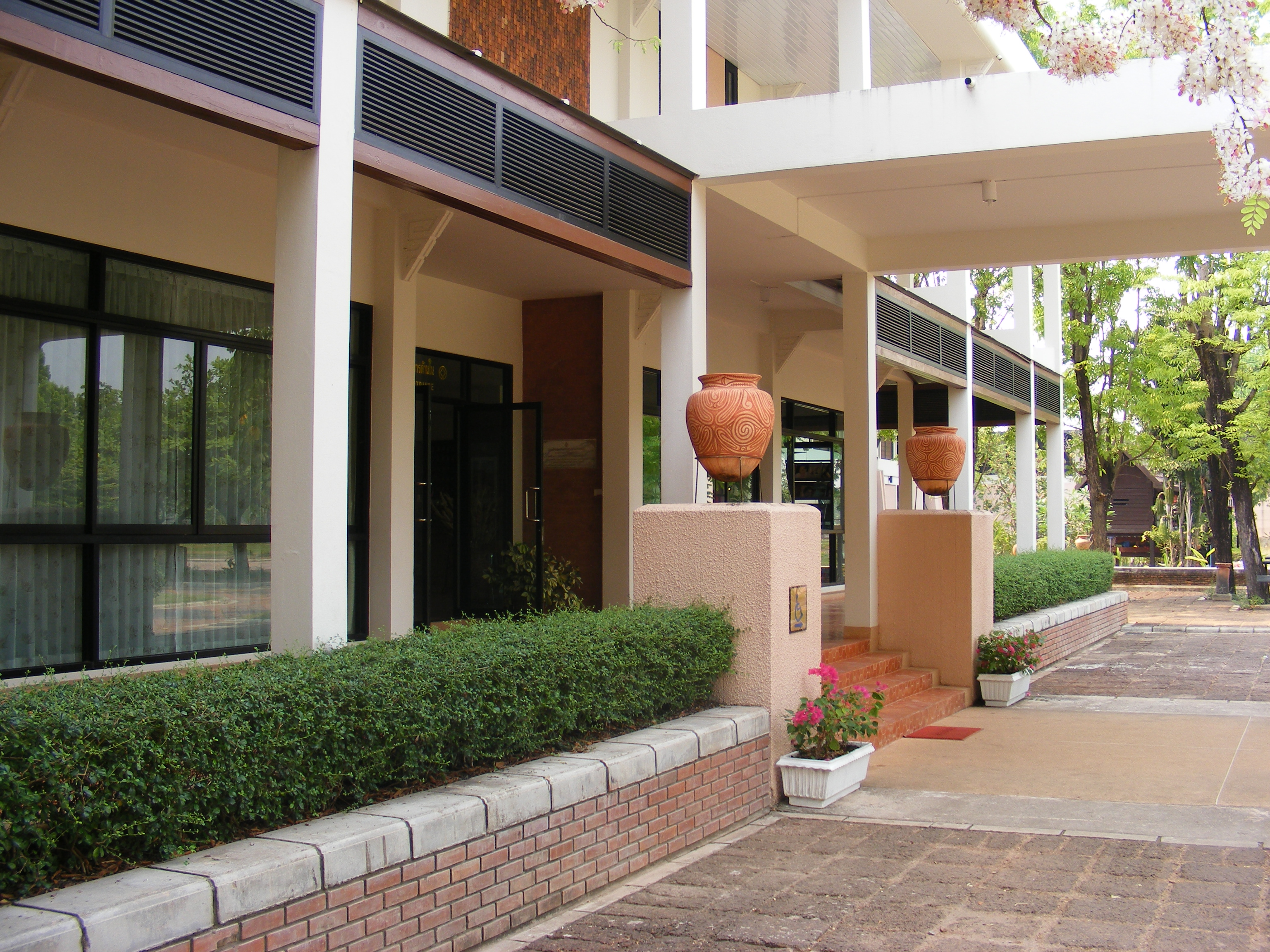 Chiang National Museum, Thailand - entrance to the main exhibition complex.